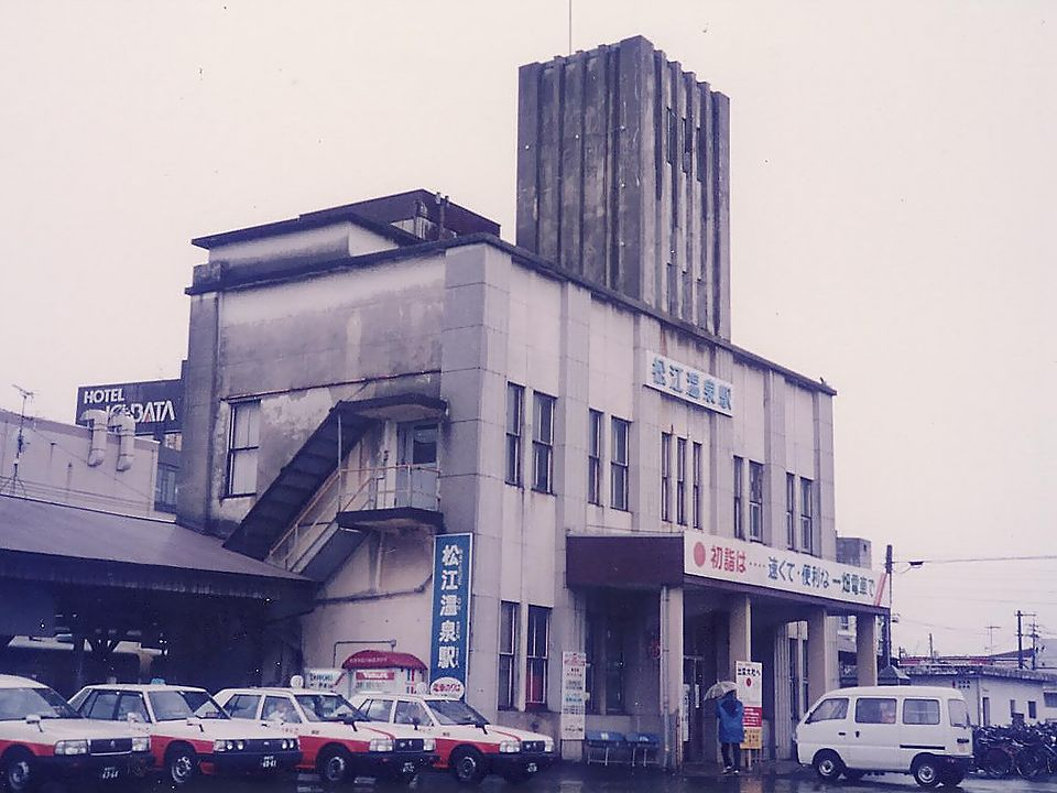 Matsue Onsen Station, Kitamatsue Line, Ichibata Electric Railway.